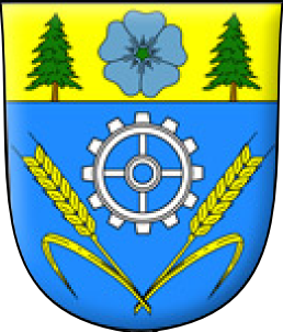 Coat of arms of Czech town Hanušovice